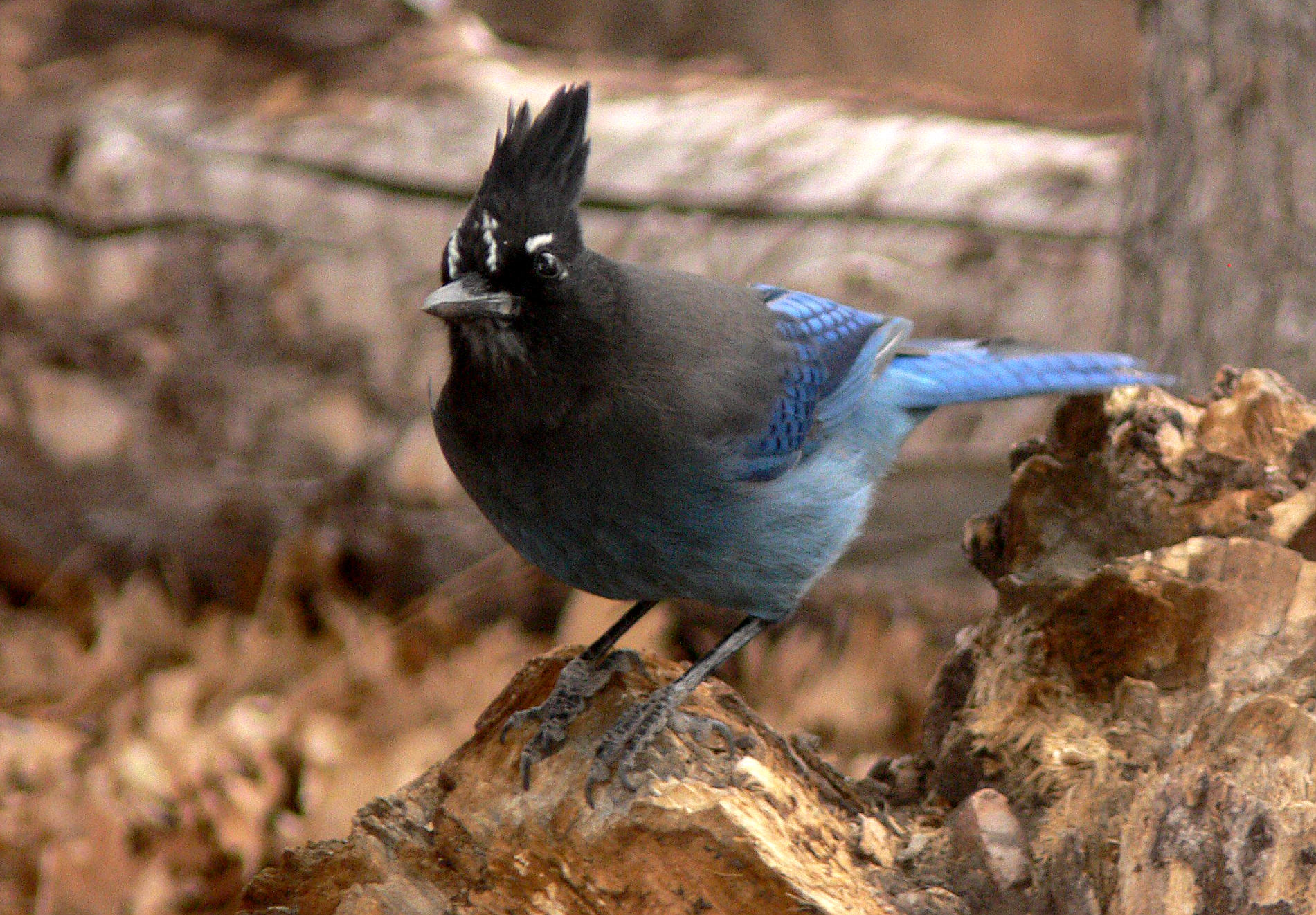 Cyanocitta stelleri Grand Canyon Stellar's Jay